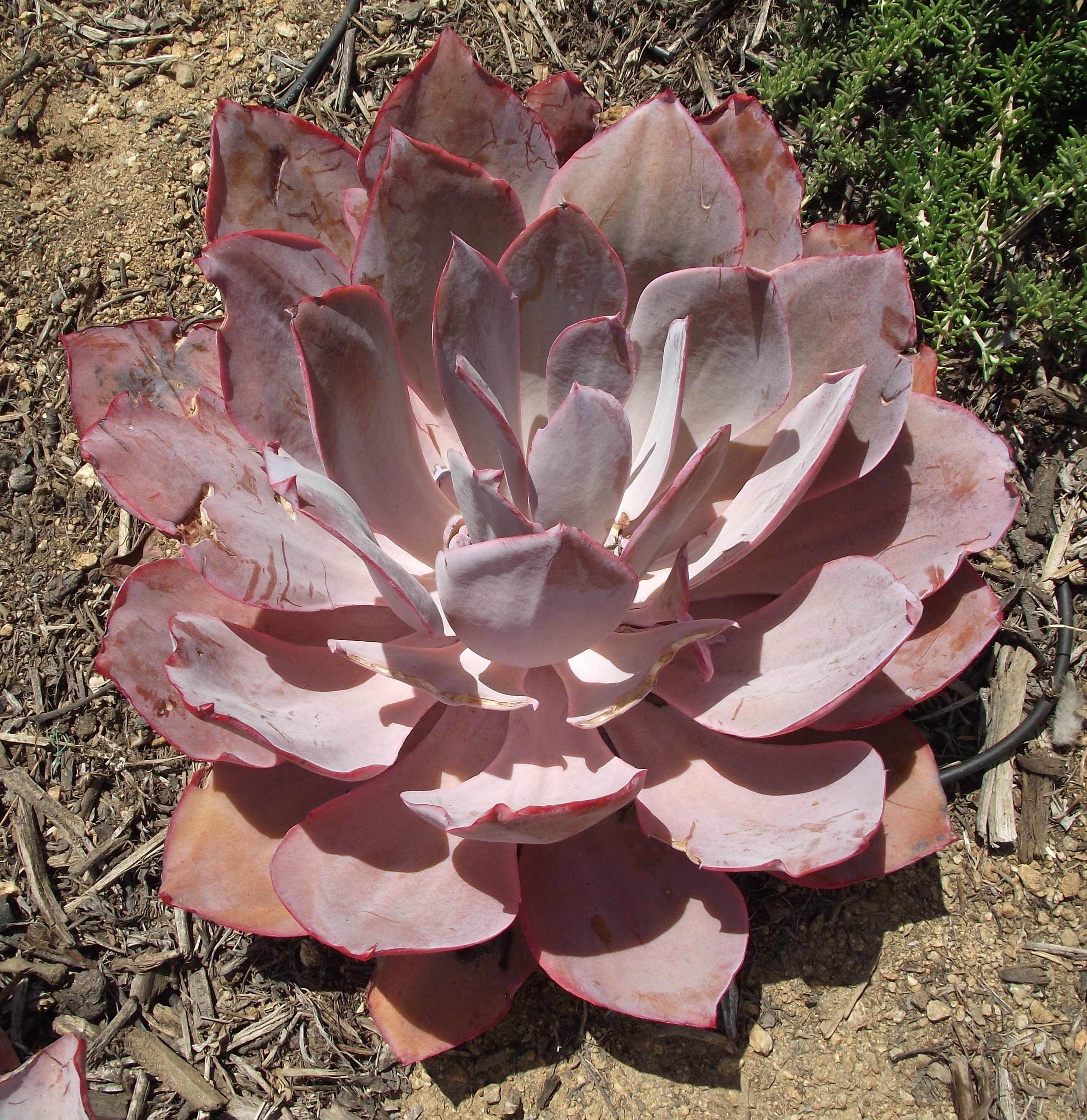 Echeveria 'Afterglow' in the Water Conservation Garden at Cuyamaca College, El Cajon, California, USA. Identified by sign.